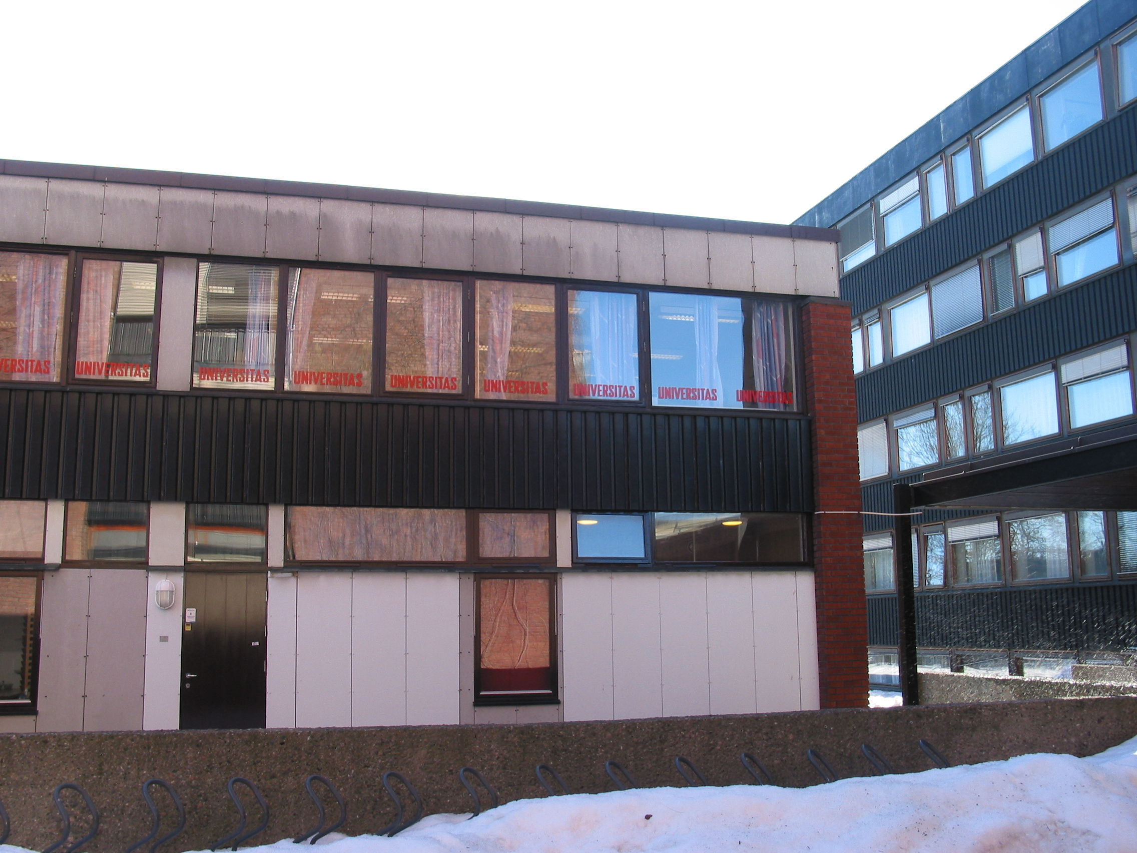 The HQ of the newspaper Universitas, located on-campus at Blindern, adjacent to Harriet Holter's House (right).